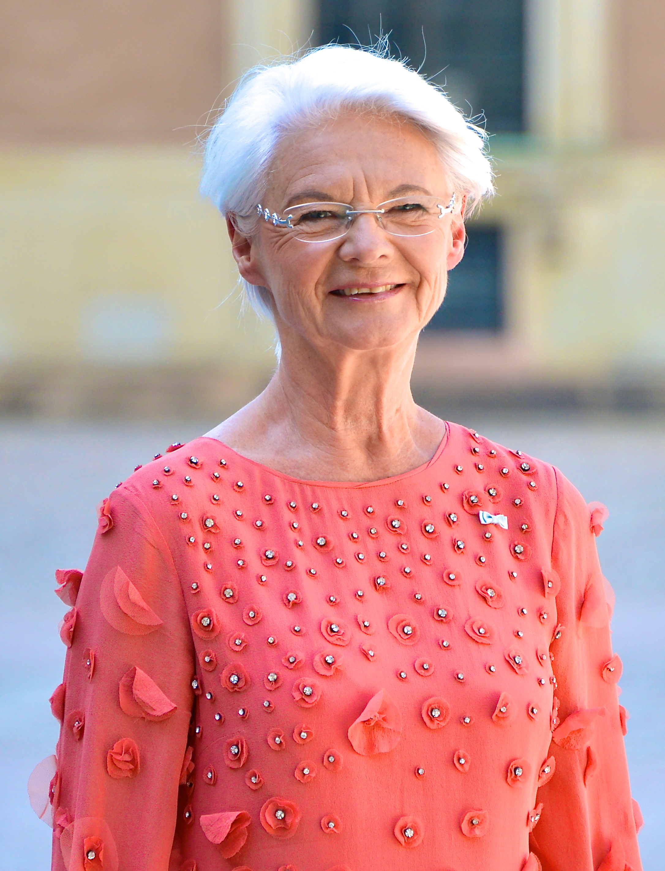 Elisabeth Tarras-Wahlberg on the way to the castle church at the Royal Palace in Stockholm before the wedding between Princess Madeleine and Christopher O'Neill June 8, 2013.